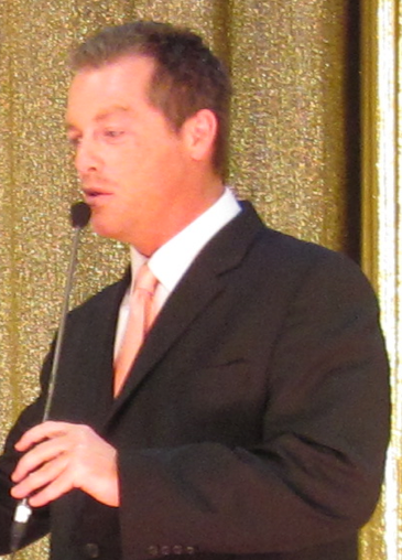 Todd Newton hosting the live-on-stage edition of the Price is Right at the Jubilee theater in Las Vegas, 2010.